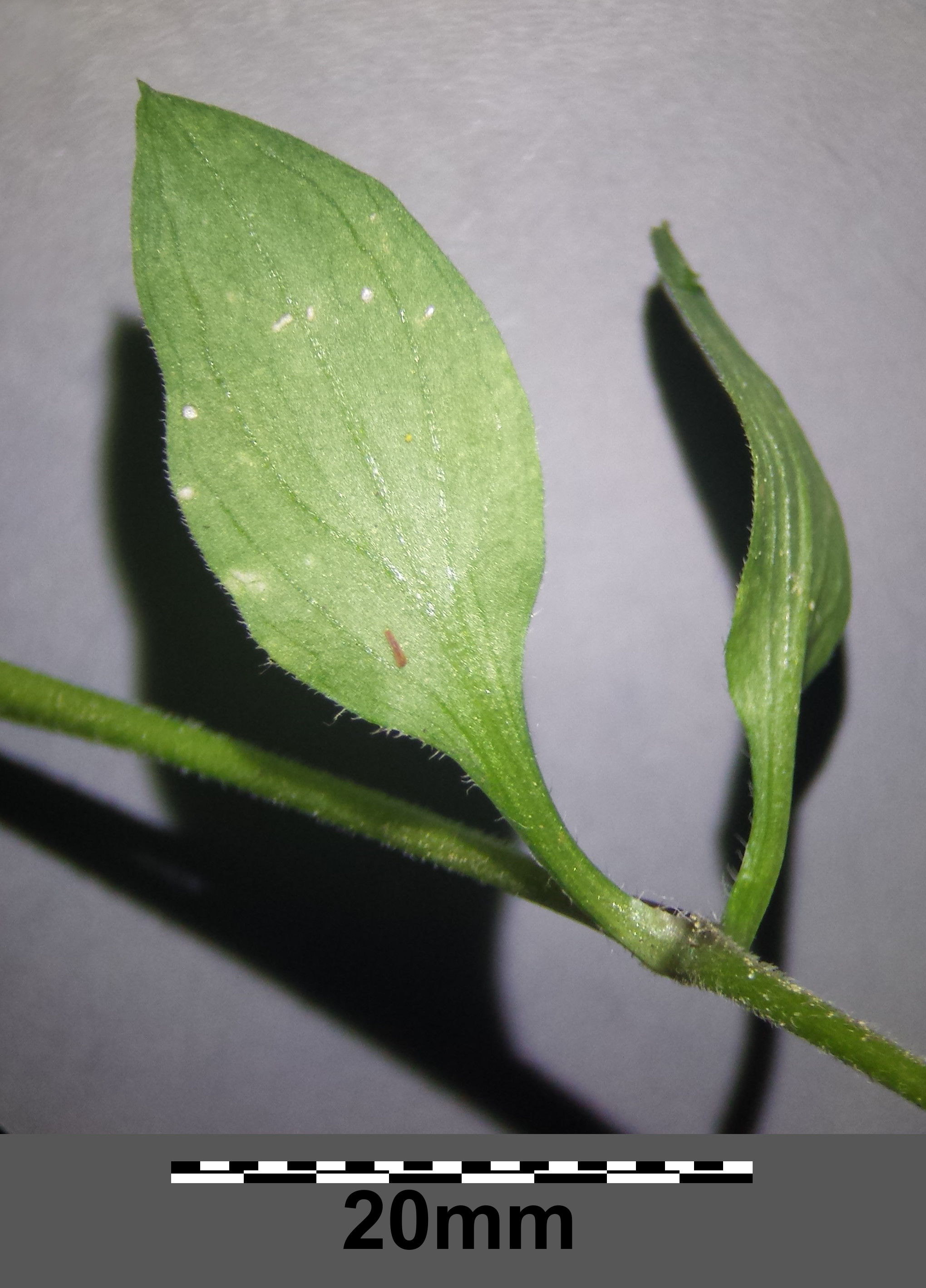 Stem with leaves Taxonym: Moehringia trinervia ss Fischer et al. EfÖLS 2008 ISBN 978-3-85474-187-9 Location: near Karnabrunner, district Korneuburg, Lower Austria - ca. 300 m a.s.l. Habitat: path within a wood